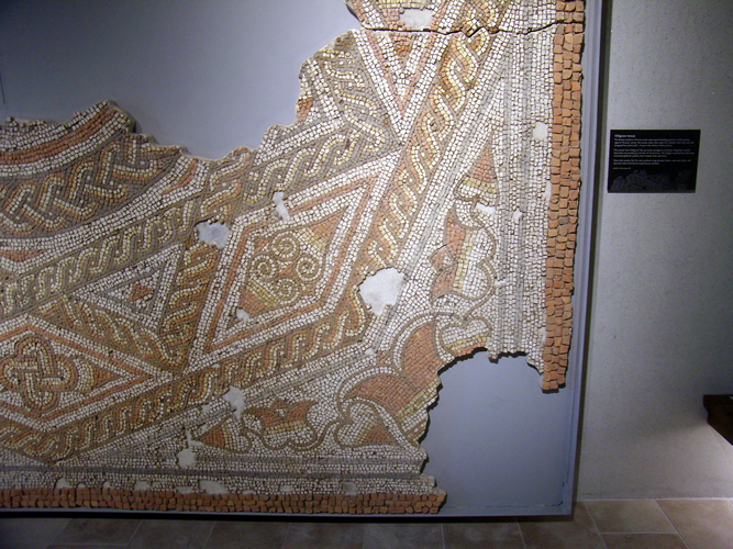 Mosaic from the Roman villa in Chilgrove (Chilgrove 1); Fourth Century, now Chichester museum